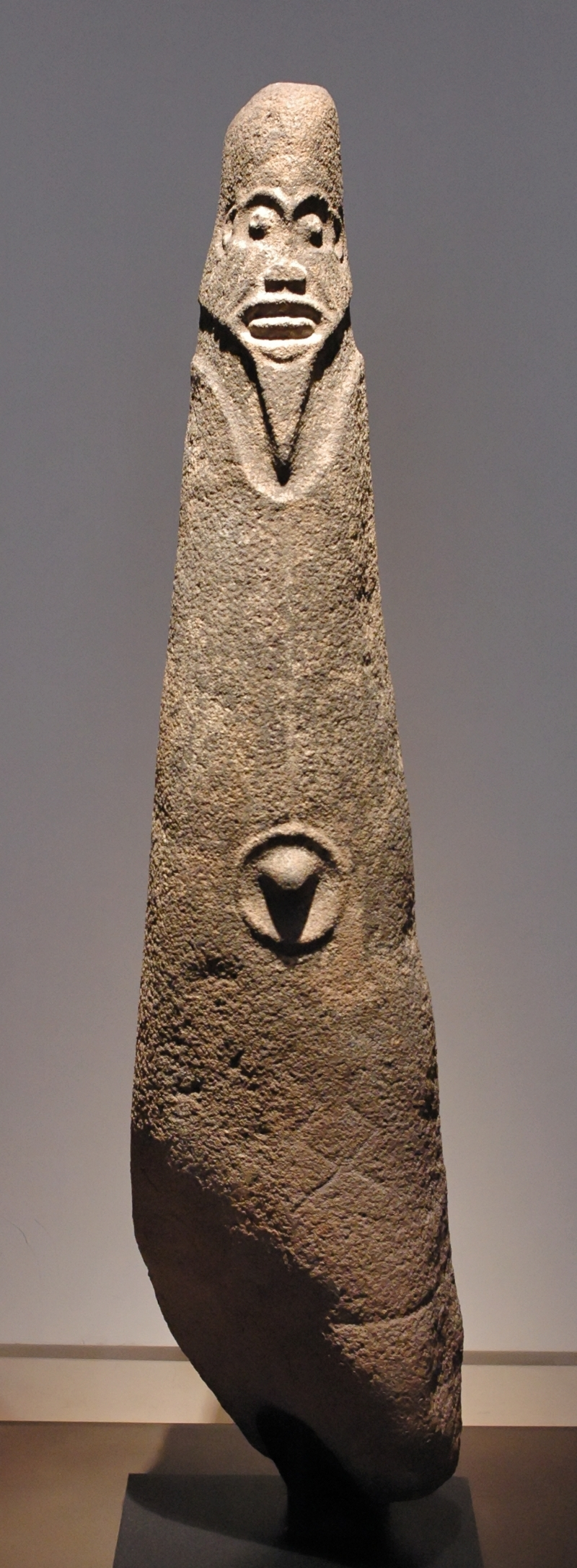 Emblem of the Eblabu secret society, in charge of carrying out the death sentence in case of a violation of community rules. Monolith carved with a bearded face and a navel; both are linked by an engraved line. Art of the Bakor-Ejagham people.